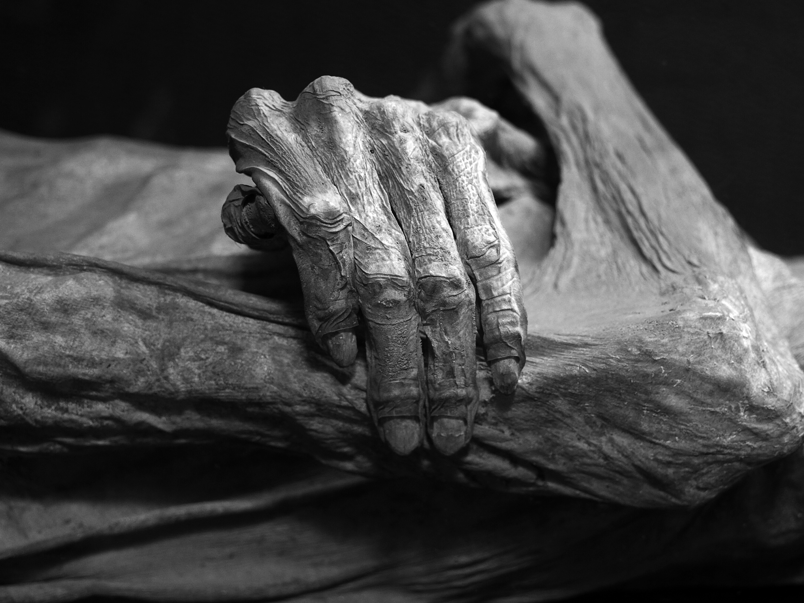 Detail of the Guanajuato mummies, Mexico. Black and white version. Photo taken at Museo de las Momias de Guanajuato.